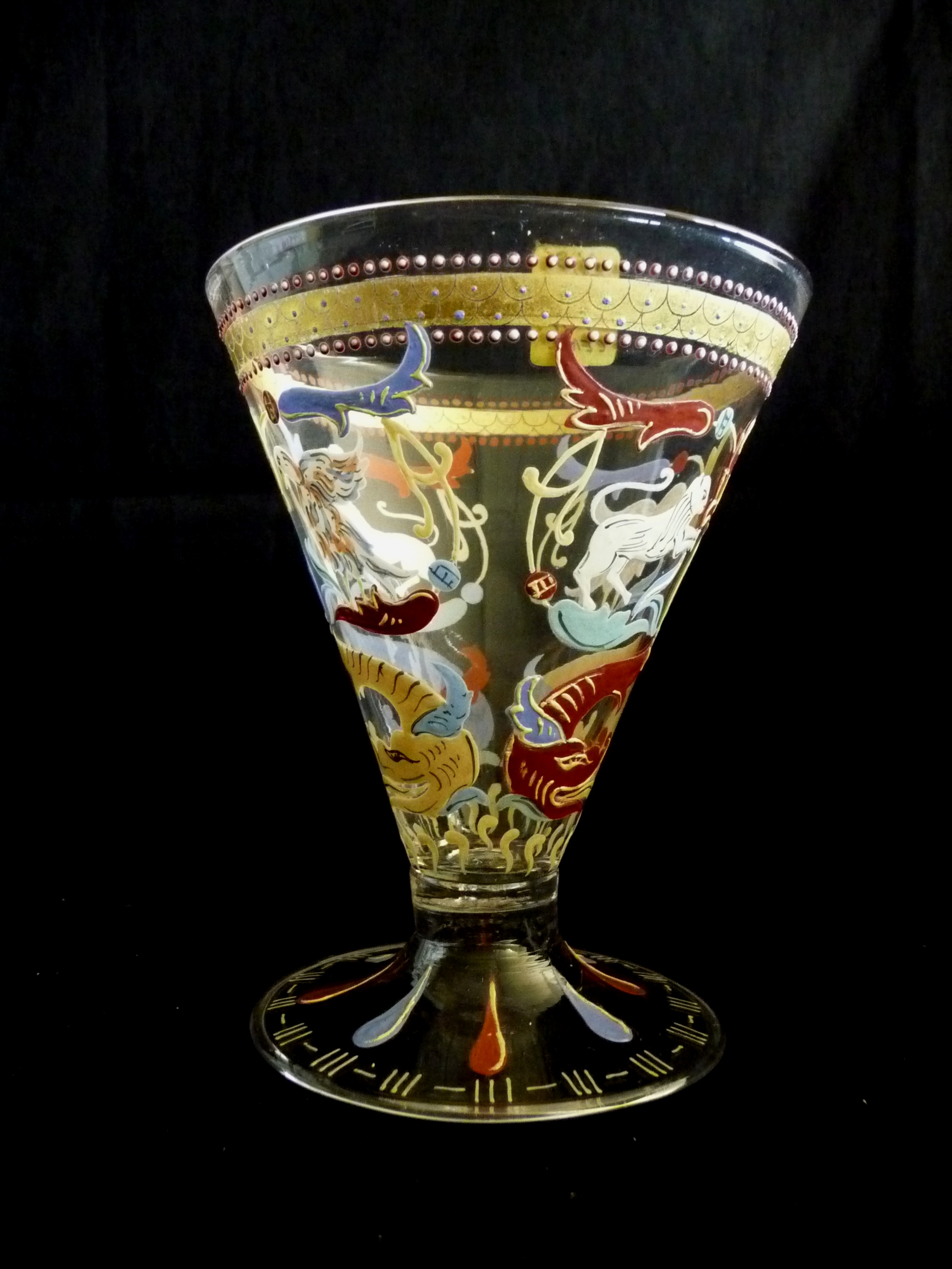 This vase or goblet was made in Italy in the early 19th century. It is made of Venetian glass and decorated with birds and fish. It may have been used as a wine glass or as a beautiful ornament. Object description: The base is slightly raised with a cone-like bowl decorated with blue and brown enamel. The bowl has two pairs of fish with tails intertwined in colours of blue, pale yellow and brown. Between them is a bird and a lion. The top is trimmed with gold and white. This item is part of the Ben Ronalds’ Collection. History: Venetian glass is made in Venice, Italy, on the island of Murano. It is known throughout the world for being colourful and skilfully made. The glassware is made from silica and other materials. When this is heated it becomes liquid. As it cools to a solid state, it becomes soft and pliable. The glass-master can shape the molten glass into beautiful pieces. Local artisans use special tools for this. They include: borselle (tongs to hand-form the red-hot glass); canna da soffio (a blowing pipe); pontello (an iron rod that helps with adding the finishing touches); scagno (a work bench); and tagianti (glass-cutting clippers).